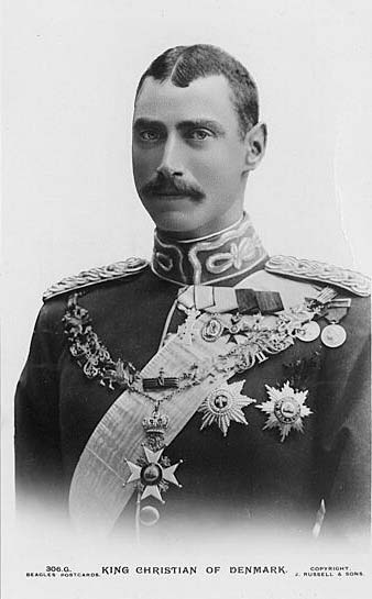 King Christian X of Denmark